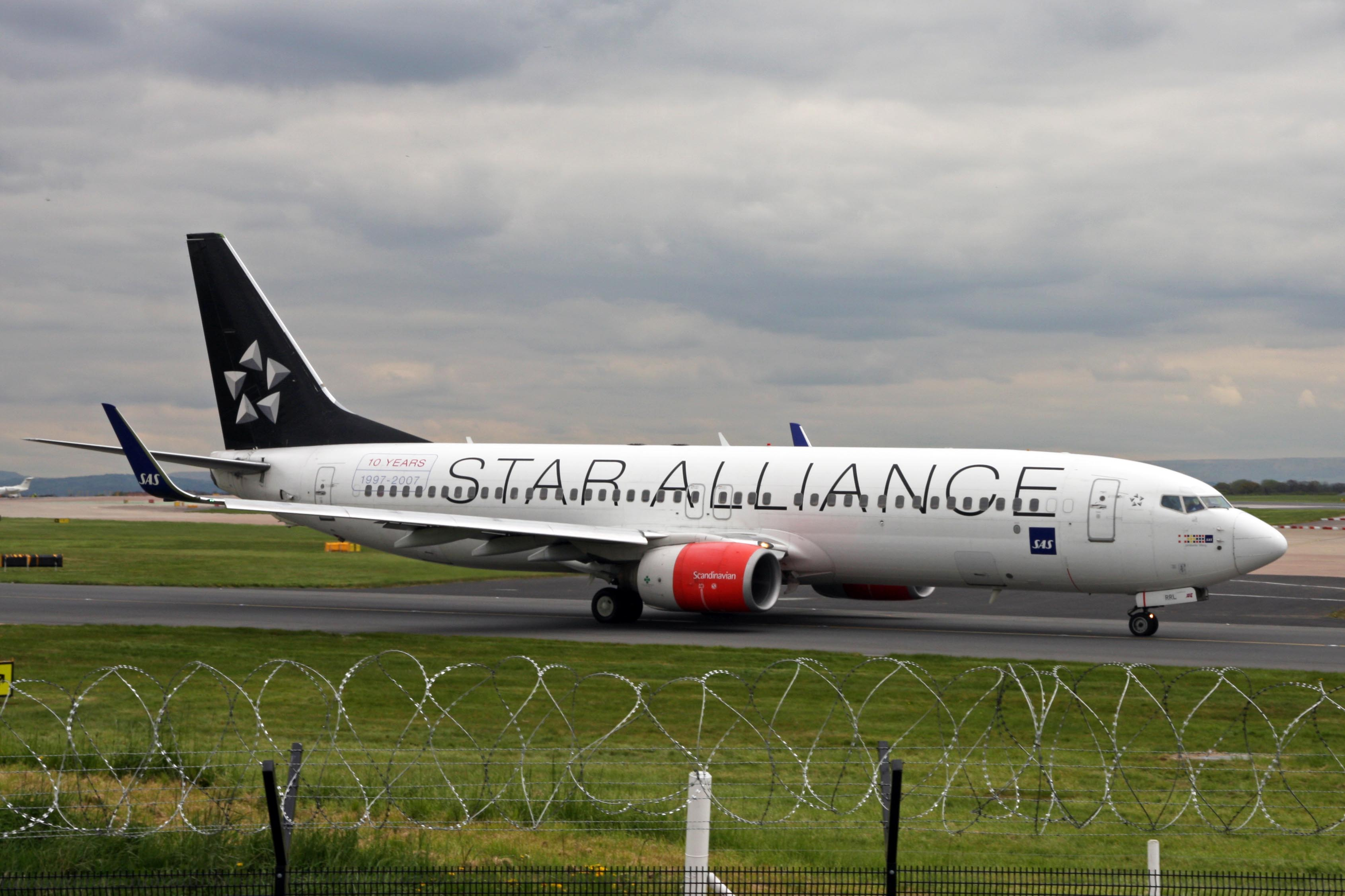 'Star Alliance' c/scheme, still with '10 years' logo!